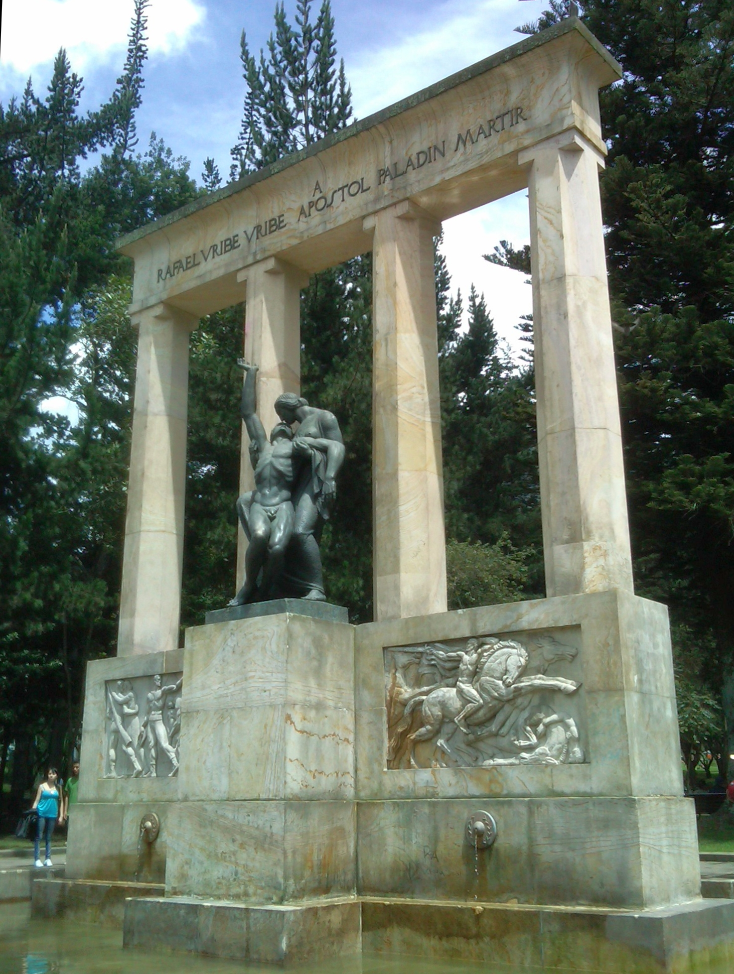 This monument to General Rafael Uribe Uribe is found in the Parque Nacional Olaya Herrera (National Park) in Bogotá, Colombia. It was designed by Alfredo Rodríguez Orgaz and Victorio Macho. The scultputure was done by Victorio Macho and the reliefs were done by Bernardo Vieco. The piece was inaugurated the 27th of October, 1940.